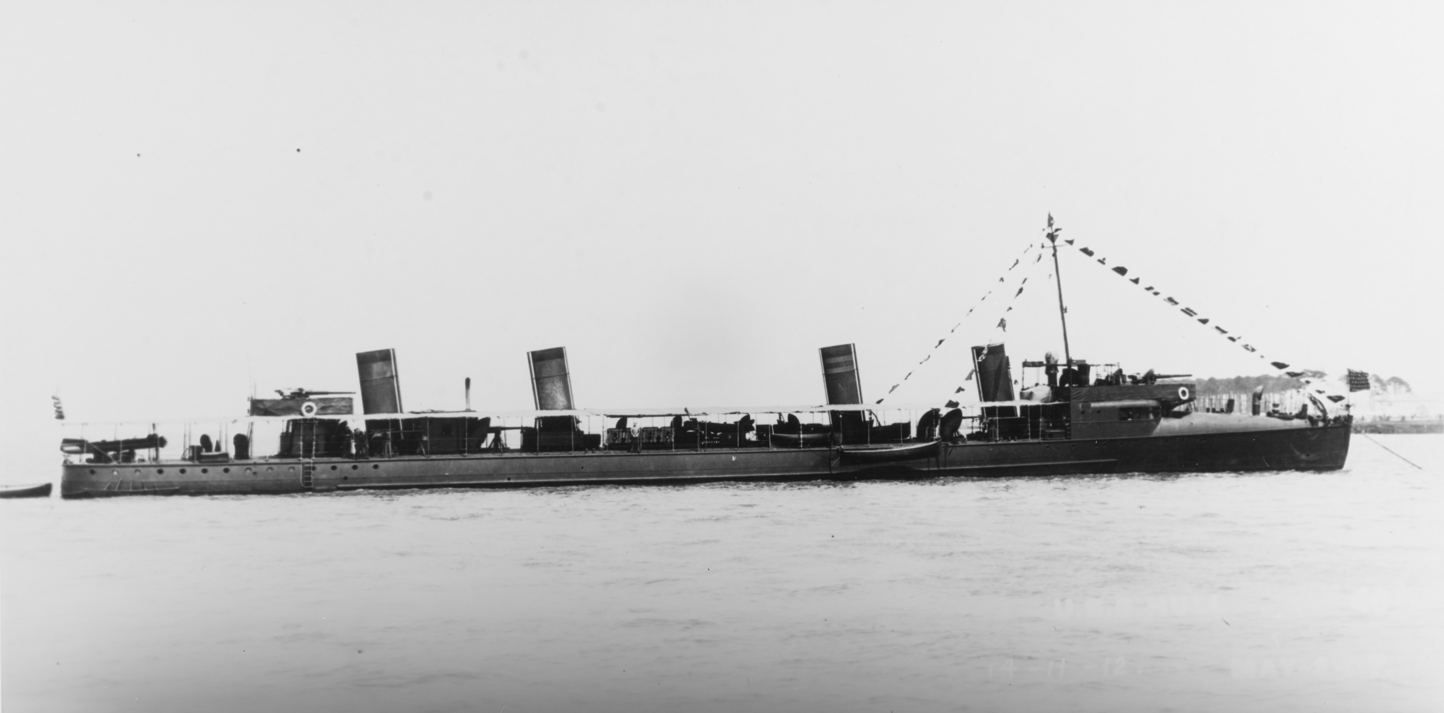 (Destroyer # 7) At anchor, 2 May 1907. She is dressed with flags for some special occasion. Photograph from the Bureau of Ships Collection in the U.S. National Archives.